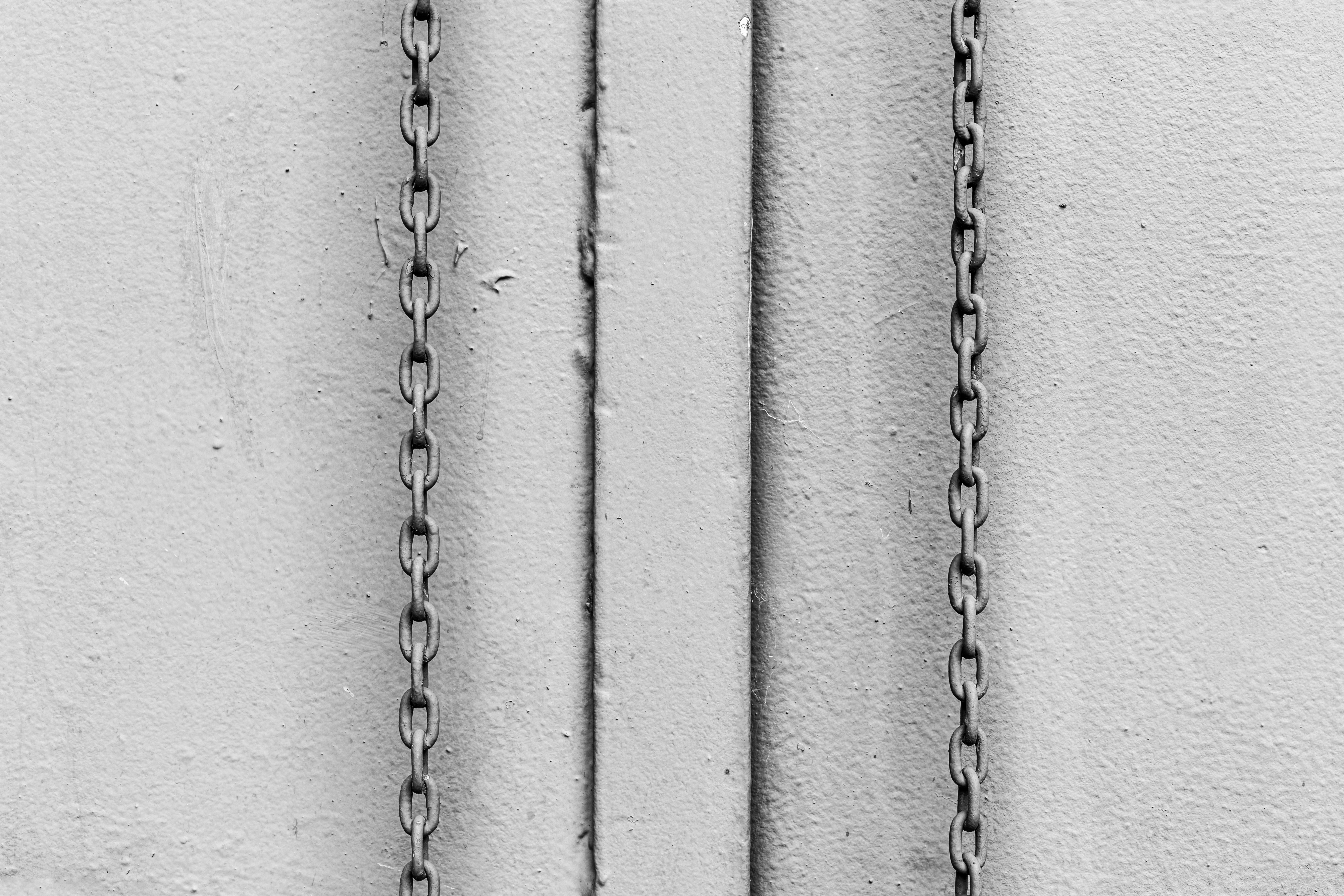 Gate of bunker 24 in the ammunition depot in the Dernekamp hamlet, Kirchspiel, Dülmen, North Rhine-Westphalia, Germany This image shows a heritage building in Germany, located in the North Rhine-Westphalian city Dülmen (no. 132).